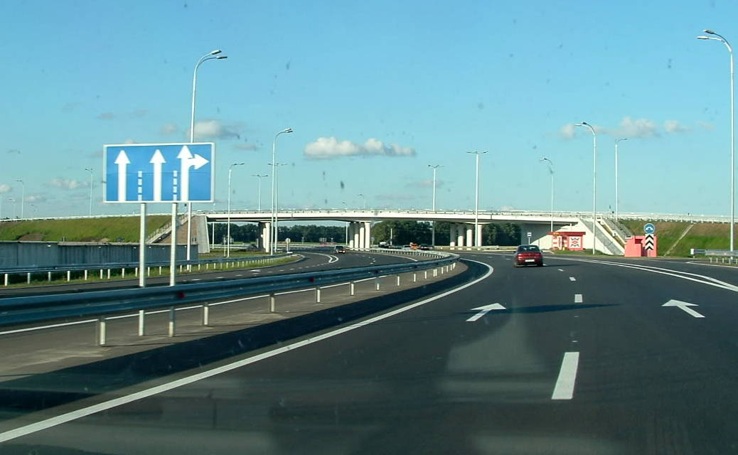 The M05 (Kiev-Odessa) Highway. Final junction before Odessa.